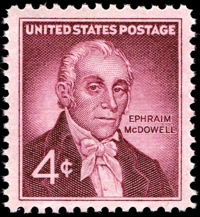 Image of US Postage stamp depicting Ephraim McDowell